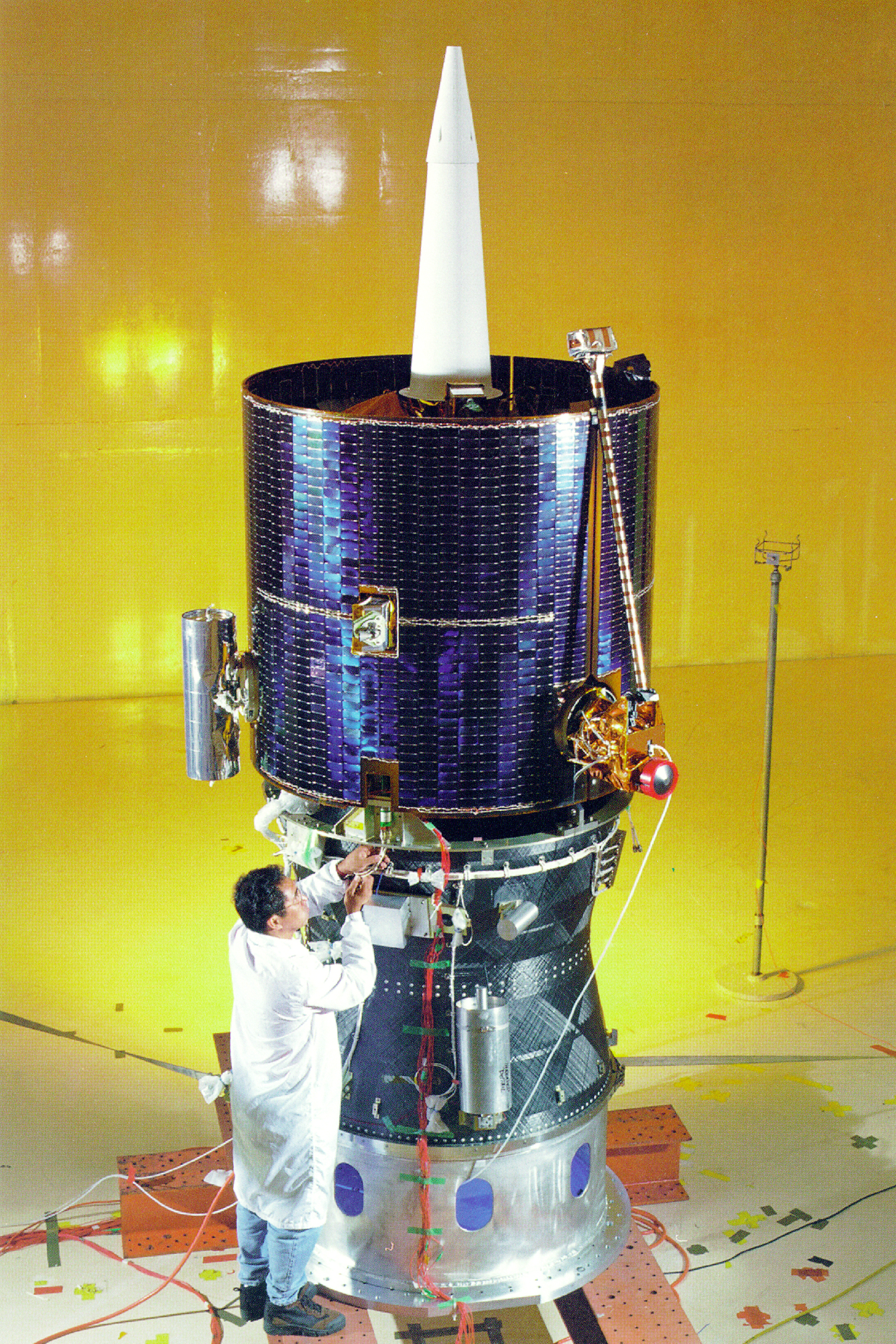 The fully assembled Lunar Prospector spacecraft is shown mated atop the Star 37 Trans Lunar Injection module. Lunar Prospector represented the first NASA spacecraft to revisit the Moon in 25 years. In December of 1972 Apollo 17 astronauts Gene Cernan and Harrison Schmitt were the last humans to set foot upon the Moon and the last NASA mission to visit the lunar frontier. On January 6, 1998 at 9:28 p.m., Lunar Prospector was launched from Cape Canaveral, Florida aboard a Lockheed Martin Athena II rocket. Also onboard were the ash remains of astrogeologist Eugene M. Shoemaker. A scientist from the U.S. Geological Survey, he was detailed to NASA and helped train Apollo astronauts in lunar geology. However, as co- founder of a "rogue string" of comet fragments, his name will forever be linked to the much heralded Shoemaker-Levy 9 cometary impact of the planet Jupiter in 1995. Lunar Prospector mapped the Moon's elemental composition, gravity fields, magnetic fields and resources. Prospector provided insights into the origin and evolution of the Moon. One of the most significant finds by Lunar Prospector was confirmation that there could be as much as 10 billion tons of subsurface frozen water near the Moon's polar region. The Lunar Prospector mission came to a creative and daring conclusion when on July 31, 1999 at 2:52:00.8 a.m. PDT Mission Control Ames directed the spacecraft to a crash landing into a deep crater near the Moon's South pole. The hope was that the impact might release trapped water vapor. However no visible debris plume was detected by numerous observatories monitoring the event. This lack of direct evidence has not diminished the hope or belief that subsurface frozen water does exist.